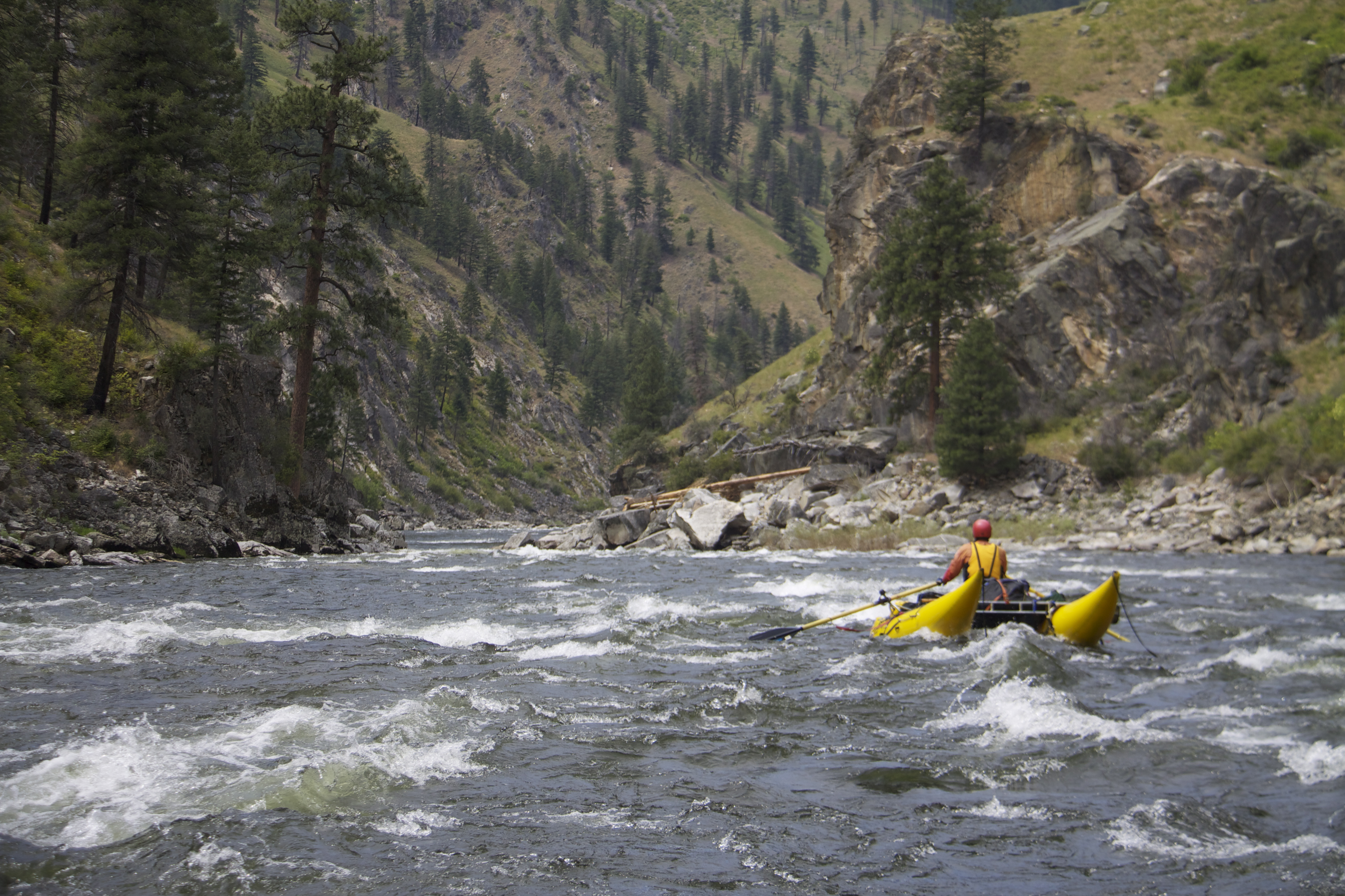 Rafting on the South Fork Salmon River, Idaho, USA